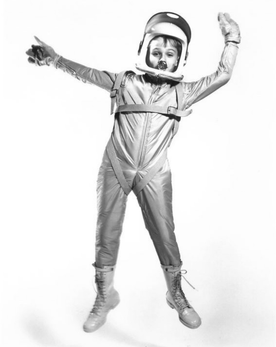 Photo of Richard Thomas from the premiere of the children's television program 1, 2, 3, Go!.